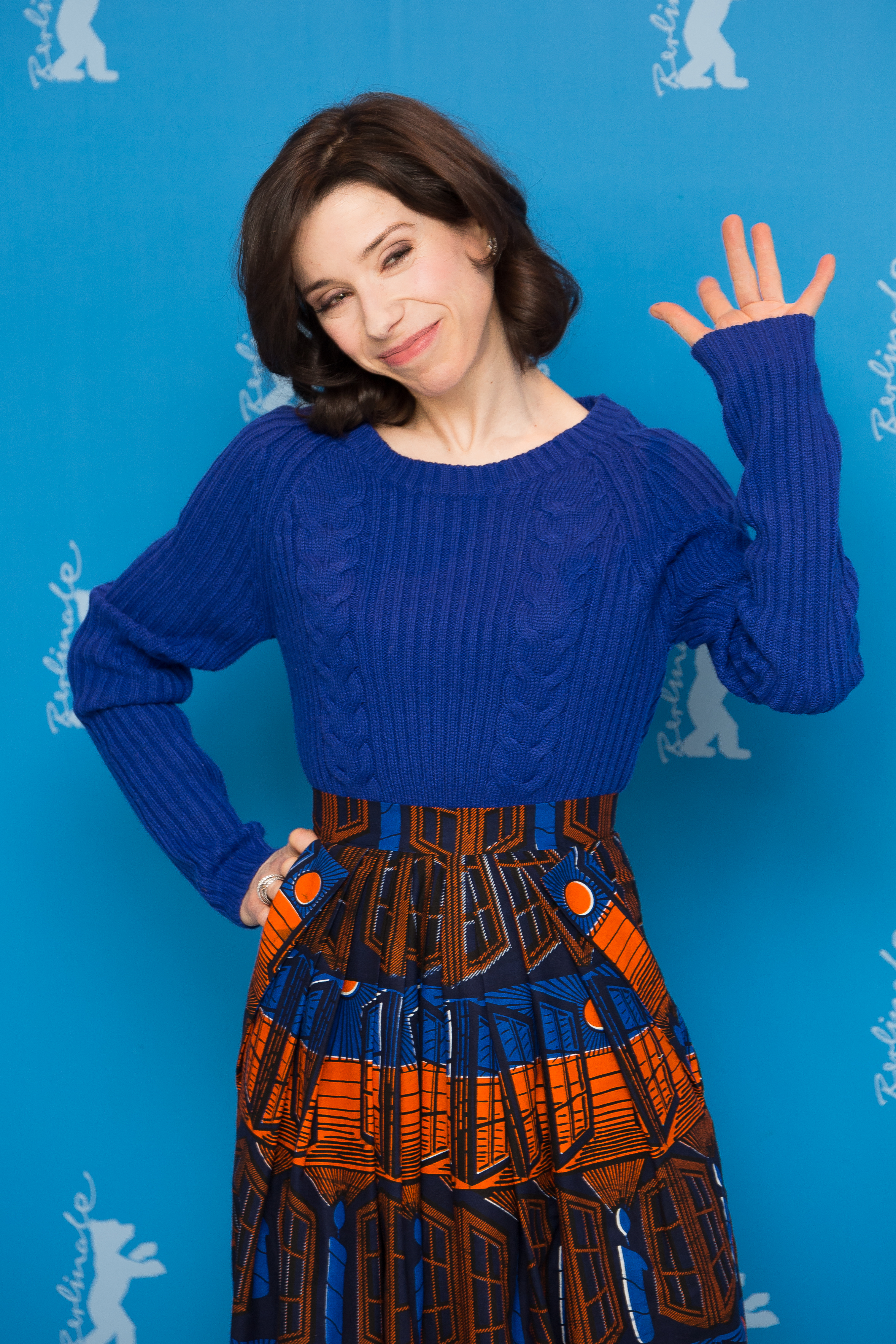 The actress Sally Hawkins at the presentation of the movie Maudie at the Berlinale 2017